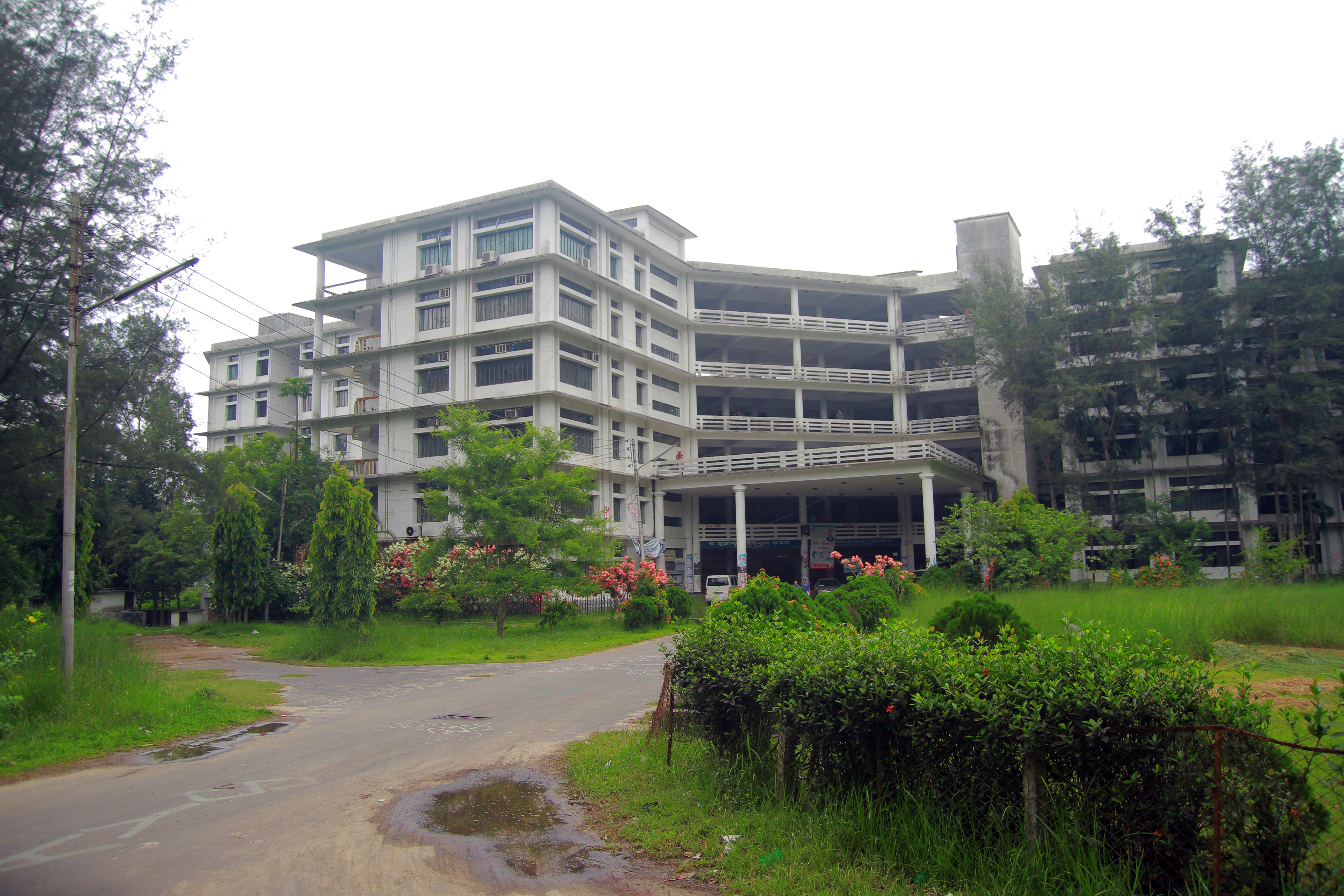 Dr. Muhammad Yunus Bhaban, Faculty of Social Sciences at University of Chittagong